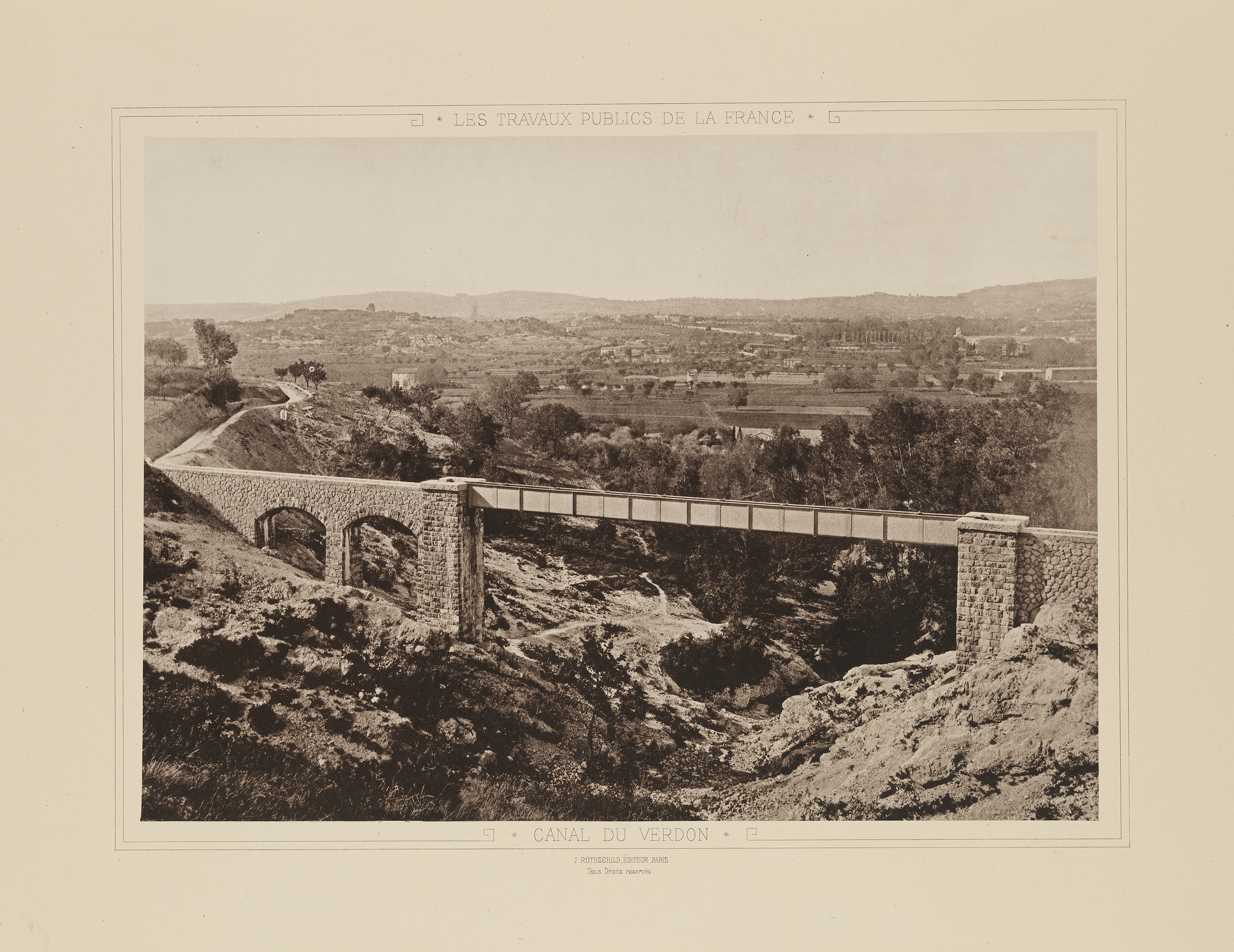 Title: Canal du Verdon Alternative Title: Verdon Canal Creator: Unknown Date: 1883 Series: Tome Troisieme: Rivieres et Canaux, Eaux des Villes - Irrigation et Assainissement des Terres Place: France Description: The full title of the five-volume set is, Les travaux publics de la France par MM. F. Lucas et V. Fournie - Ed. Collignon - H. de Lagrene - Voisin Bey - E. Allard. Ouvrage publie sous les auspices de Ministere des travaux publics et sous la direction de M. Leonce Reynaud. This photograph is one of 50 plates in Public Works of France, Volume Three: Rivers and Canals, City Waterworks, Irrigation and Drainage. Physical Description: 1 photographic print: collotype; 26 x 35 cm on 40 x 56 cm mount File: vault_folio_2_ta71_a4_1883_3_50_opt.jpg Rights: Please cite Southern Methodist University, Central University Libraries, DeGolyer Library when using this image file. A high-quality version of this file may be obtained for a fee by contacting . For more information, see